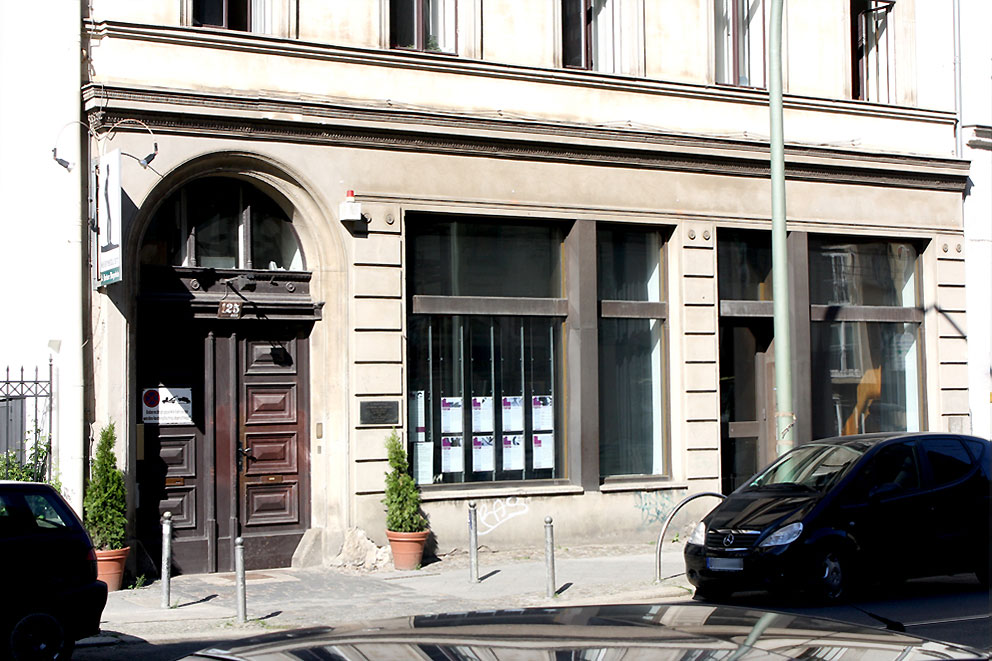 Literaturforum im Brecht-Haus Berlin, Veranstaltungssaal außen